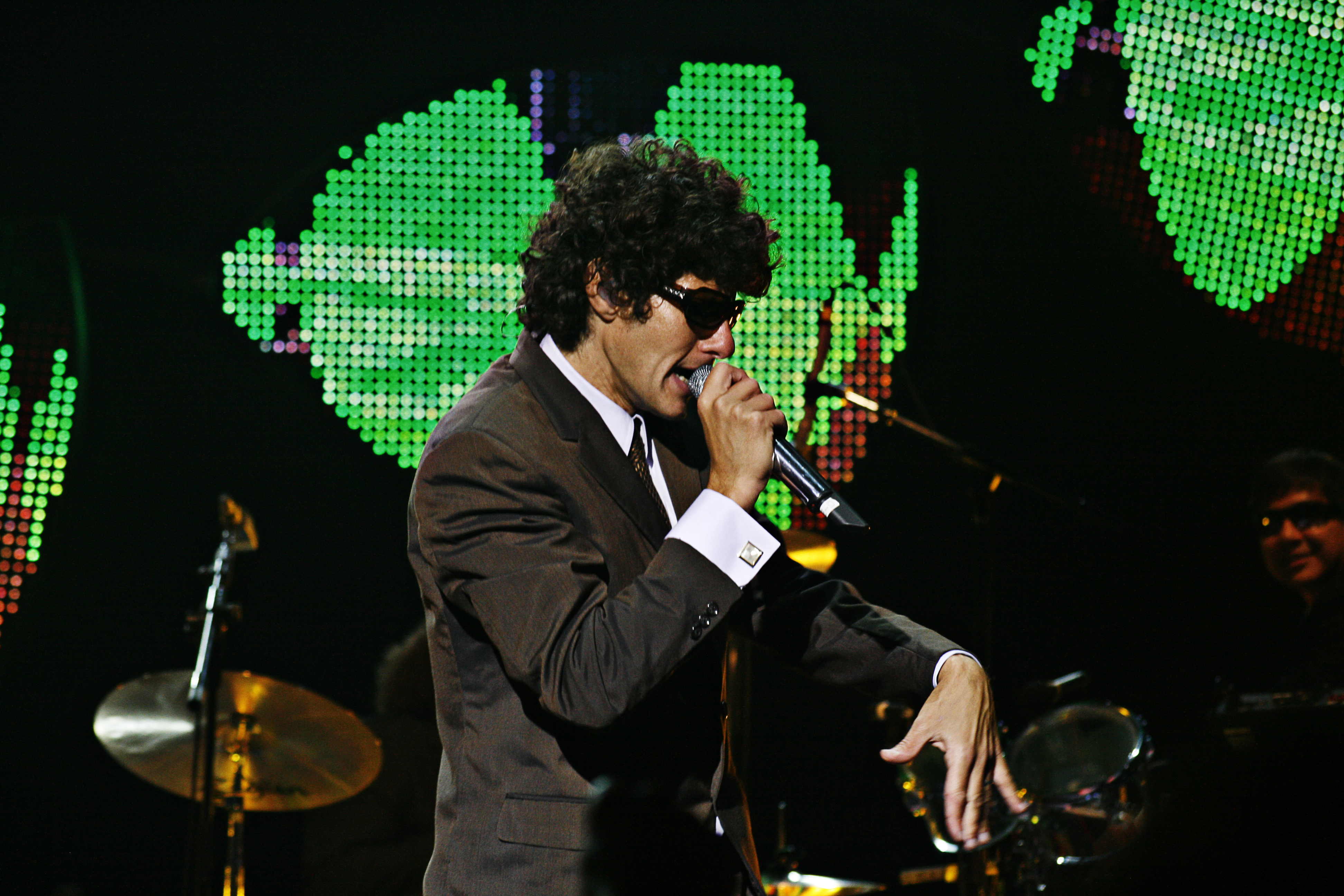 Michael Diamond, Beastie Boys at Brixton Academy - 05/09/07